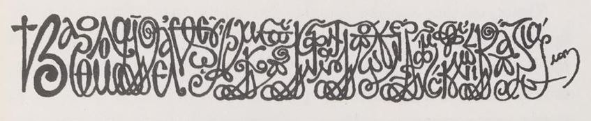 Official letterhead of Ecumenical Patriarch Bartholomew I, taken from a public letter to Greek MP Yannis maniatis